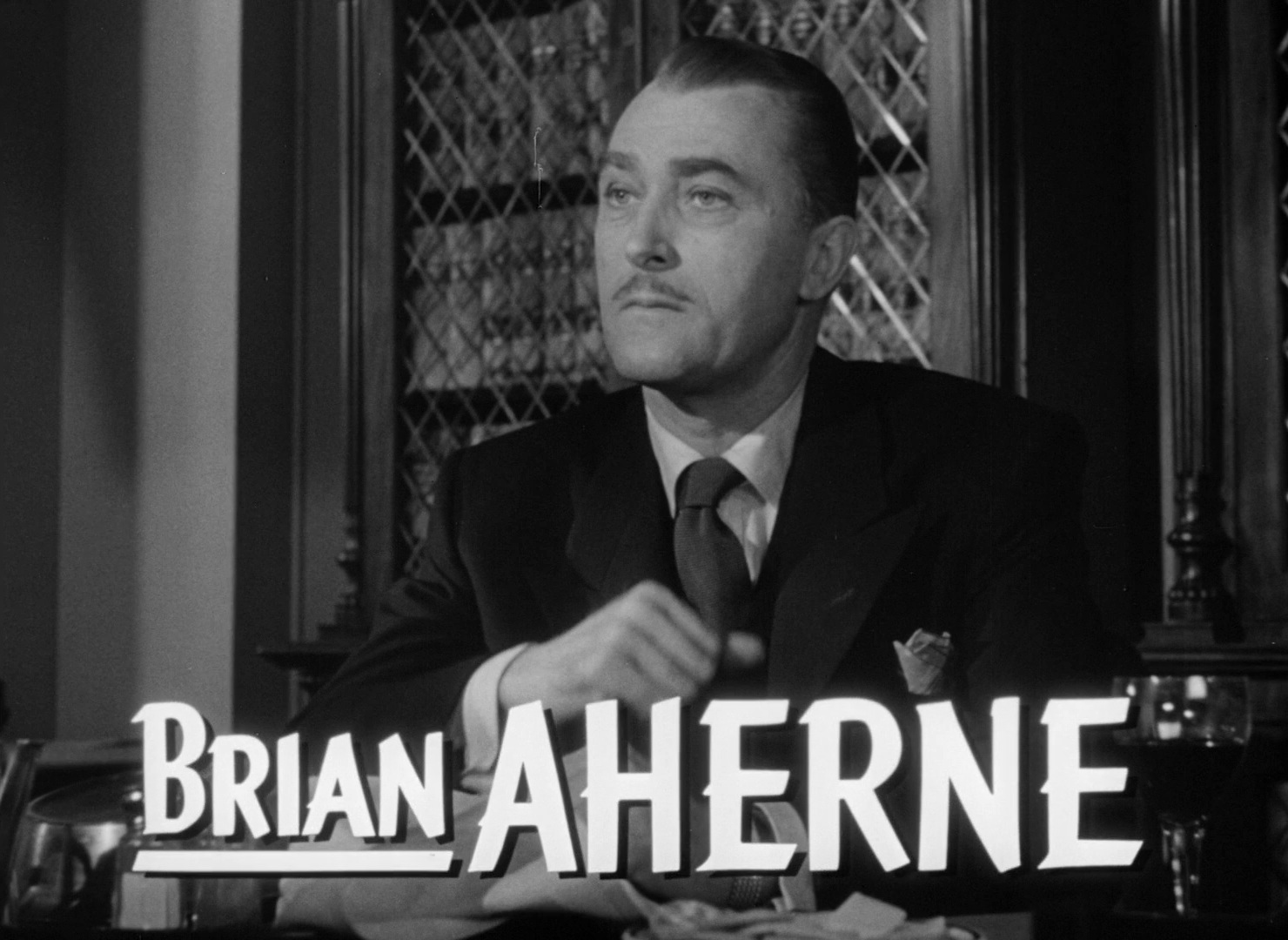 Cropped screenshot of Brian Aherne from the trailer for the film I Confess.